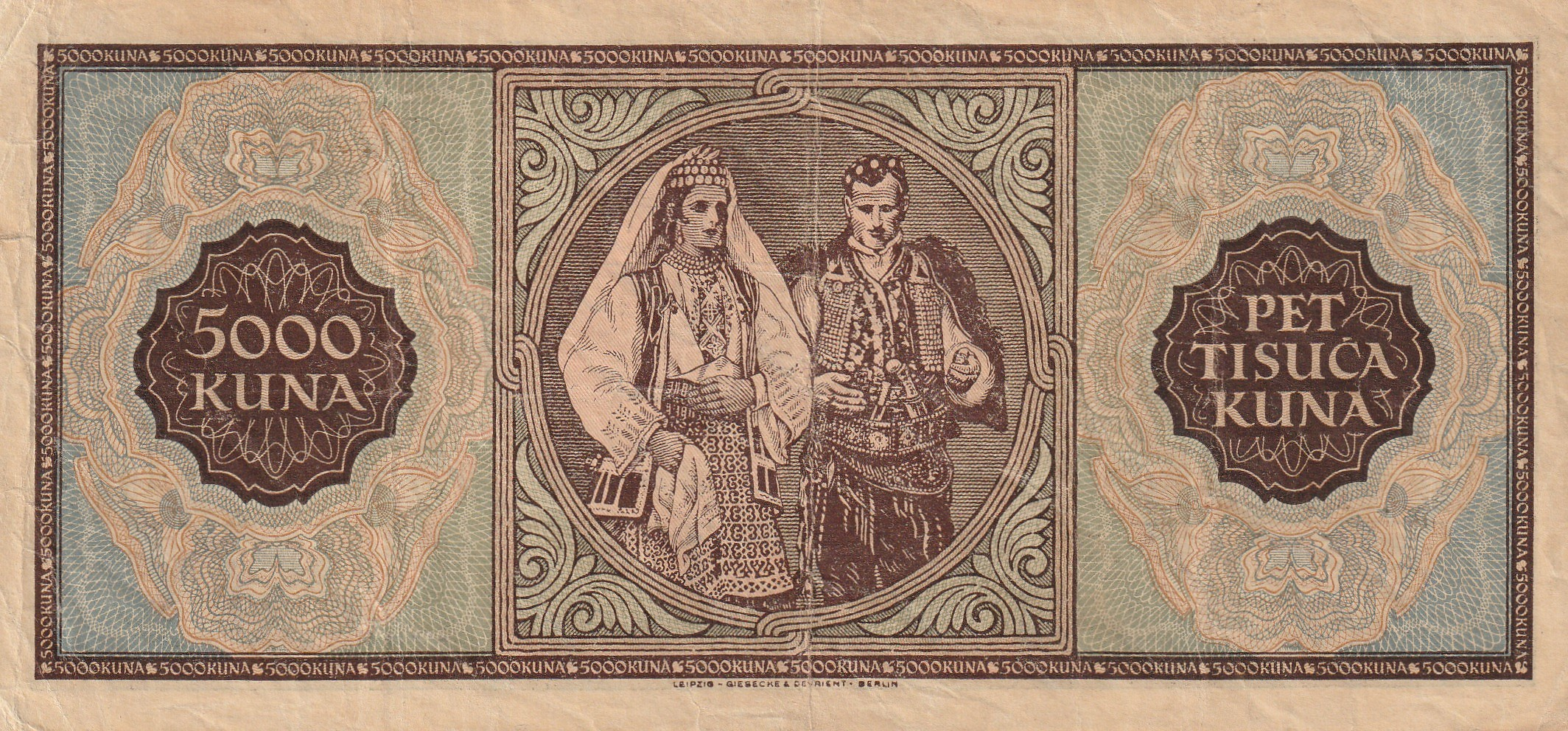 5000 kuna 1. rujna 1943.